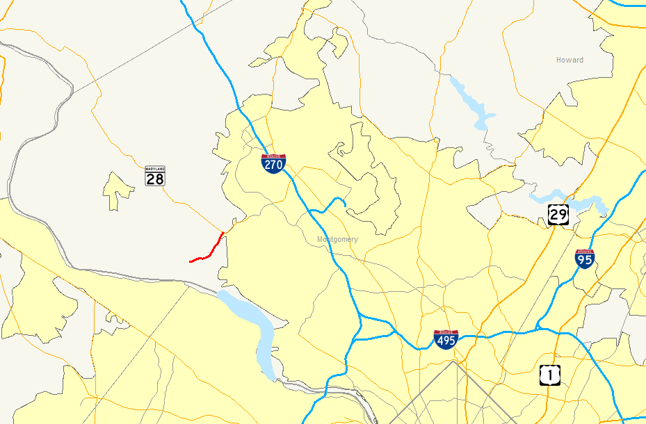 Map of Maryland Route 112